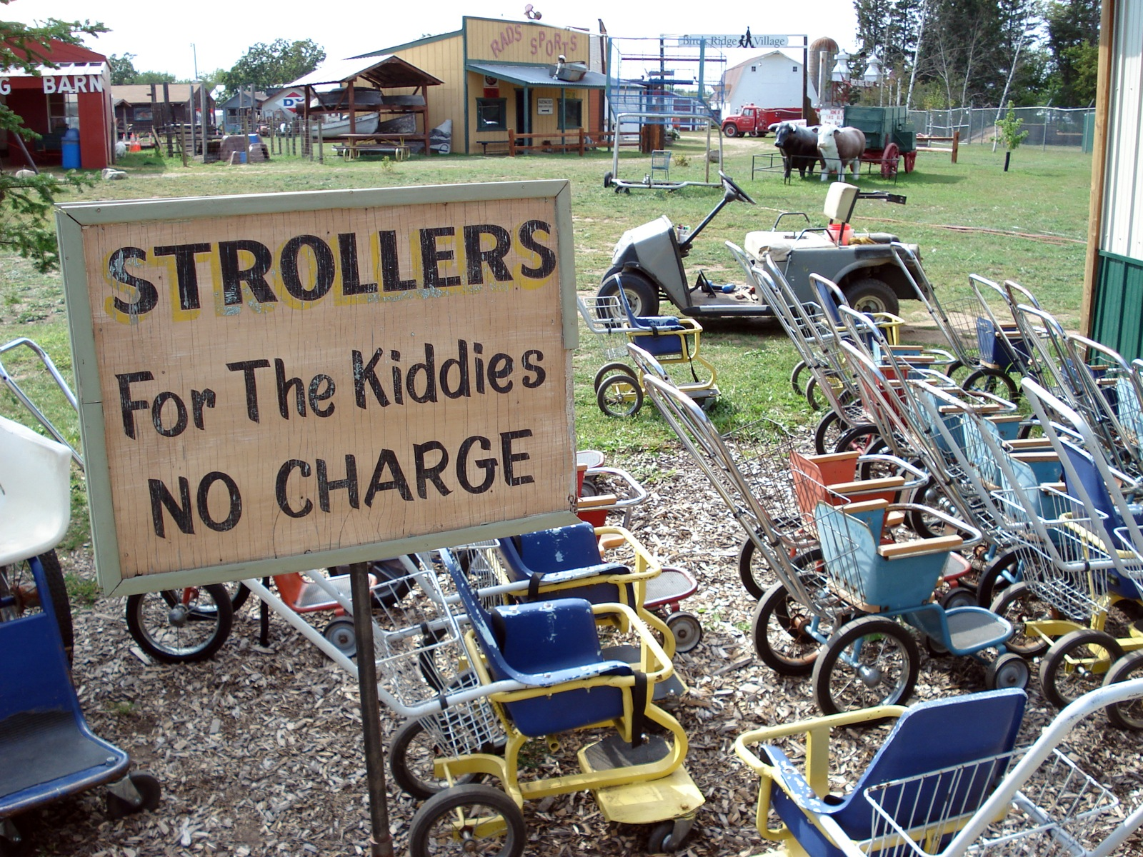 Paul Bunyan Land/This Old Farm Brainerd, Minnesota